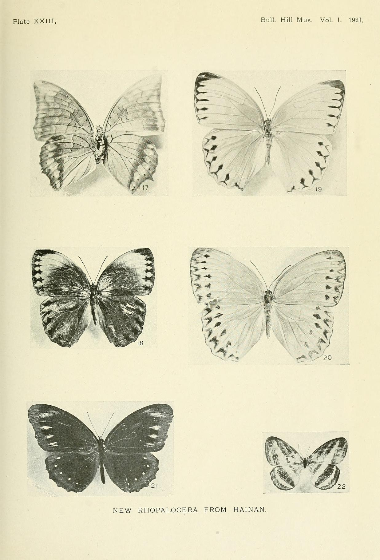 James John Joicey and George Talbot Descriptions of new forms of Lepidoptera from the island of Hainan Bulletin of the Hill Museum : a magazine of lepidopterology. Issued at the Hill Museum, Wormley, Witley Vol. 1, no. 1-2 (1921-22) Plate23 text